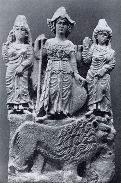 The Arabian goddess Allat standing on a lion flanked by two female figures (Manat and al-Uzza?). 2nd century relief from Hatra.